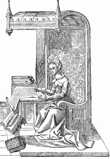 Christine de Pizan, showing the interior of an apartment at the end of the 14th or commencement of the 15th century. Original Caption: ... seated on a Canopied Chair of carved wood, the back lined with tapestry. (From Miniature on MS., in the Burghandy Library, Brussels.) Period: XV. Century. Christine de Pizan - Project Gutenberg eBook 12254 Creator: Litchfield, Frederick (1850-1930) Title: Illustrated History of Furniture From the Earliest to the Present Time EText-No. 12254